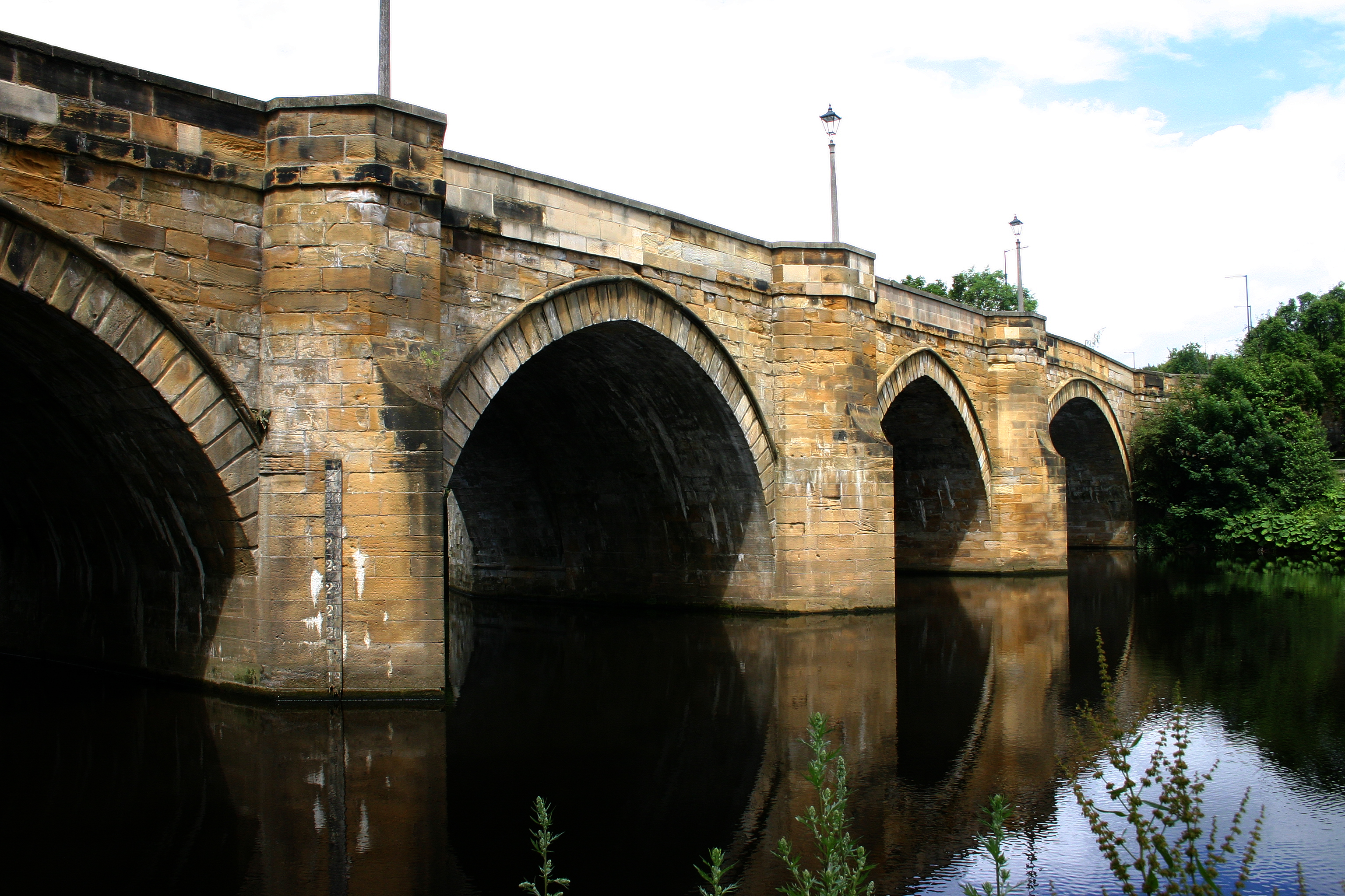 John Carr of York